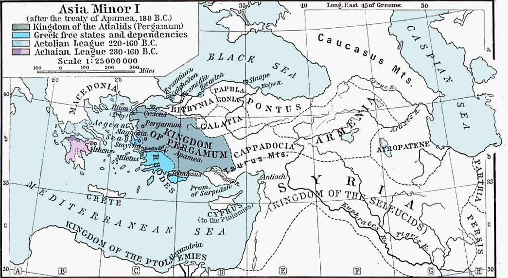 "The Growth of Roman Power in Asia Minor" from The Historical Atlas by William R. Shepherd, 1923. Accessed from the Perry-Castañeda Library Map Collection, Category:Historical maps by William R. Shepherd Category:Maps showing history by William R. Shepherd Category:188 BC Category:Maps of Asia Minor